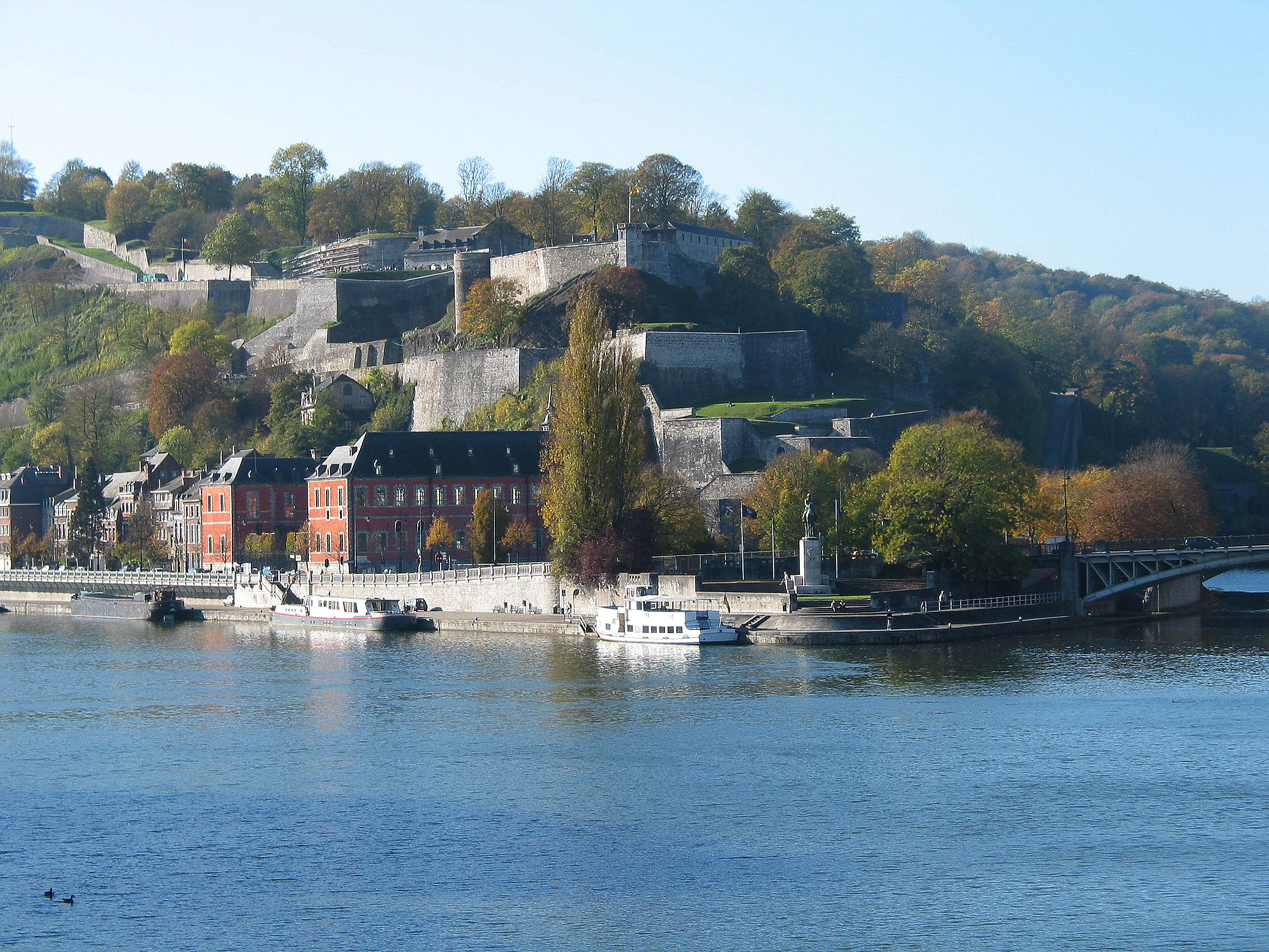 Namur (city), Belgium